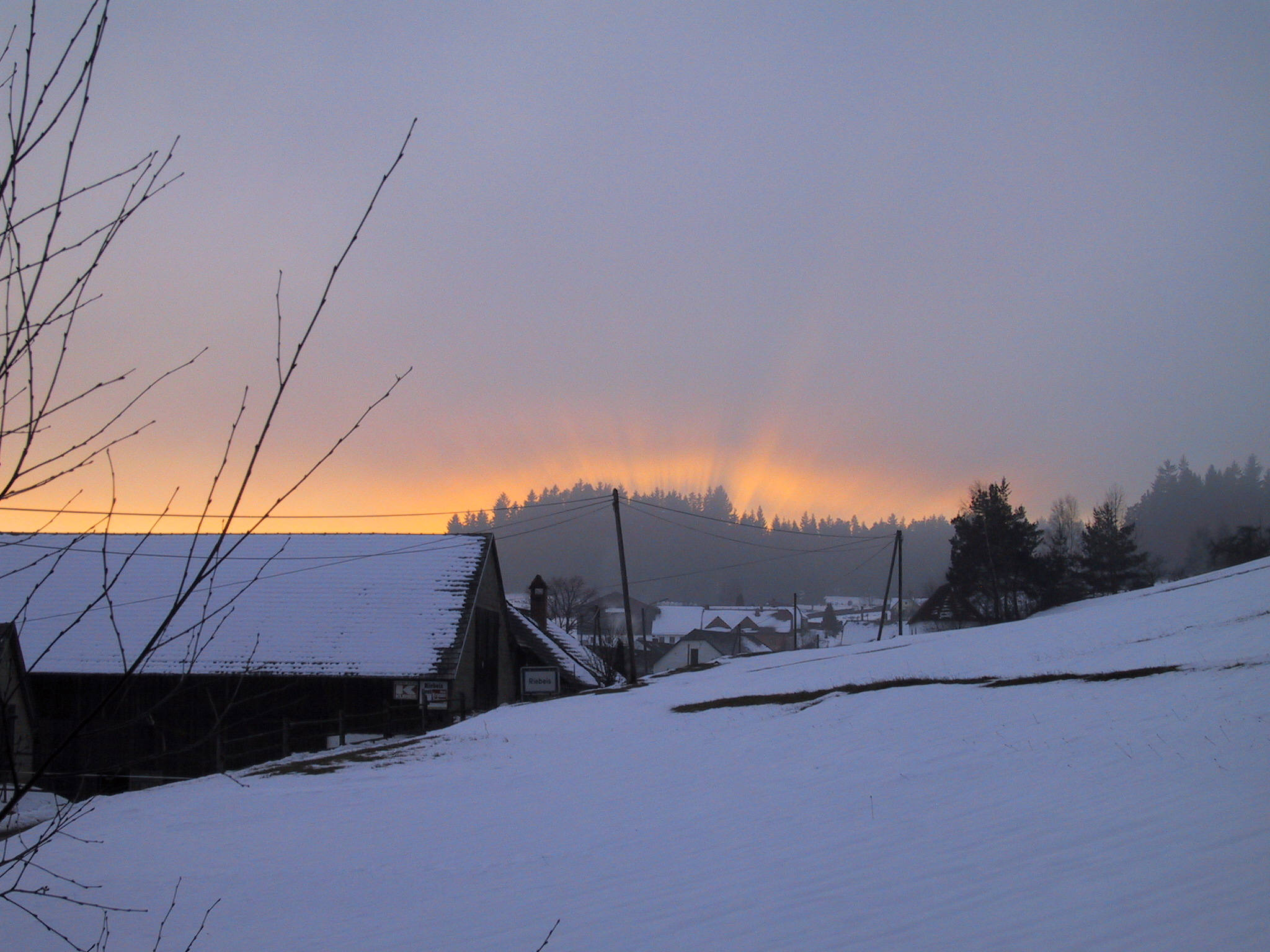 Sunset in Riebeis, Rappottenstein, Niederösterreich, Austria.